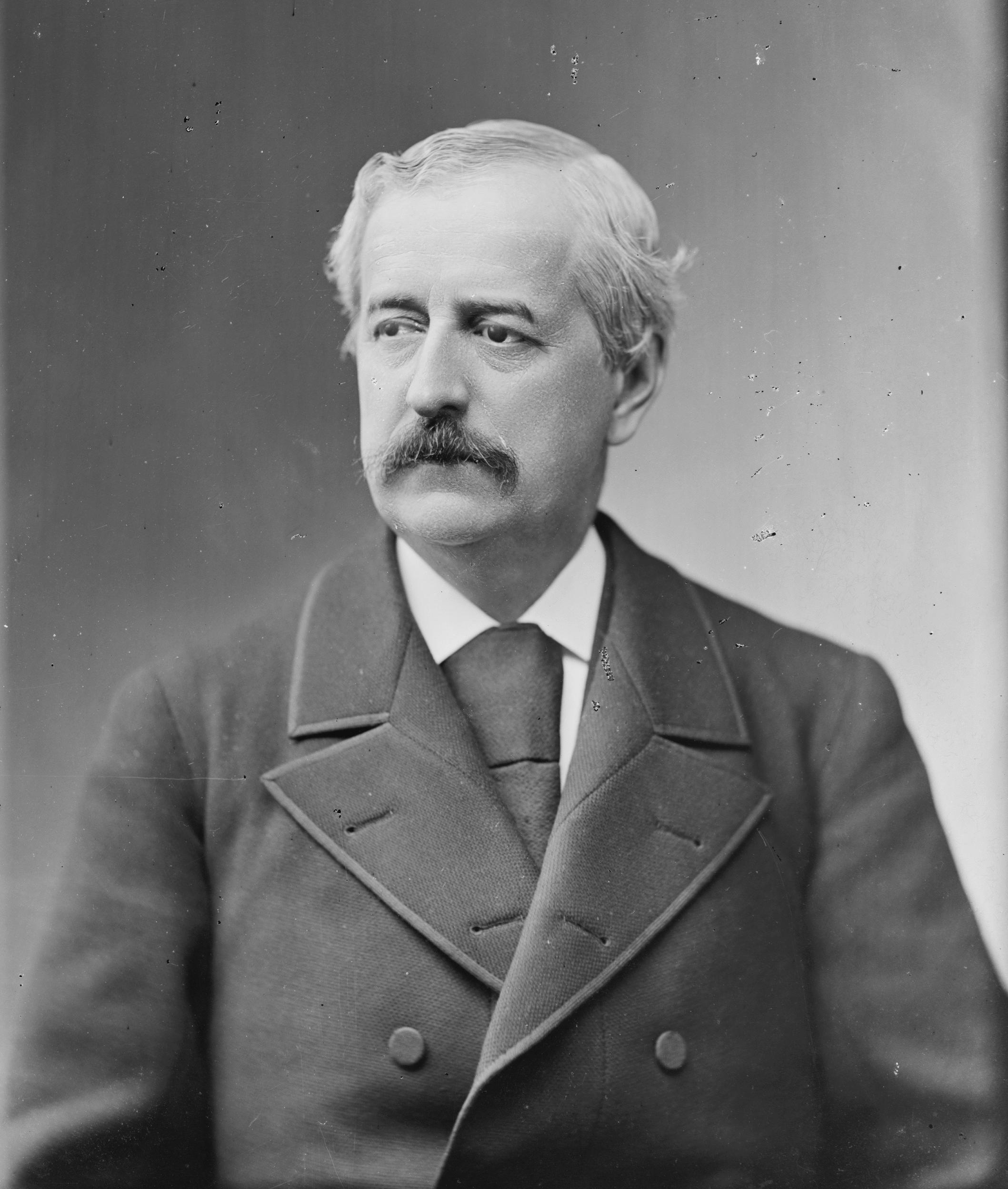 Richard Cunningham McCormick. Library of Congress description: "McCormick, Hon. Richard Cunningham, Delegate from Arizona and M.C. from N.Y. Served as a correspondent of the New York Evening Post and New York Commercial Advertiser with the Army of the Potomac in 1861-1862. Appointed by Lincoln Secretary of Arizona"